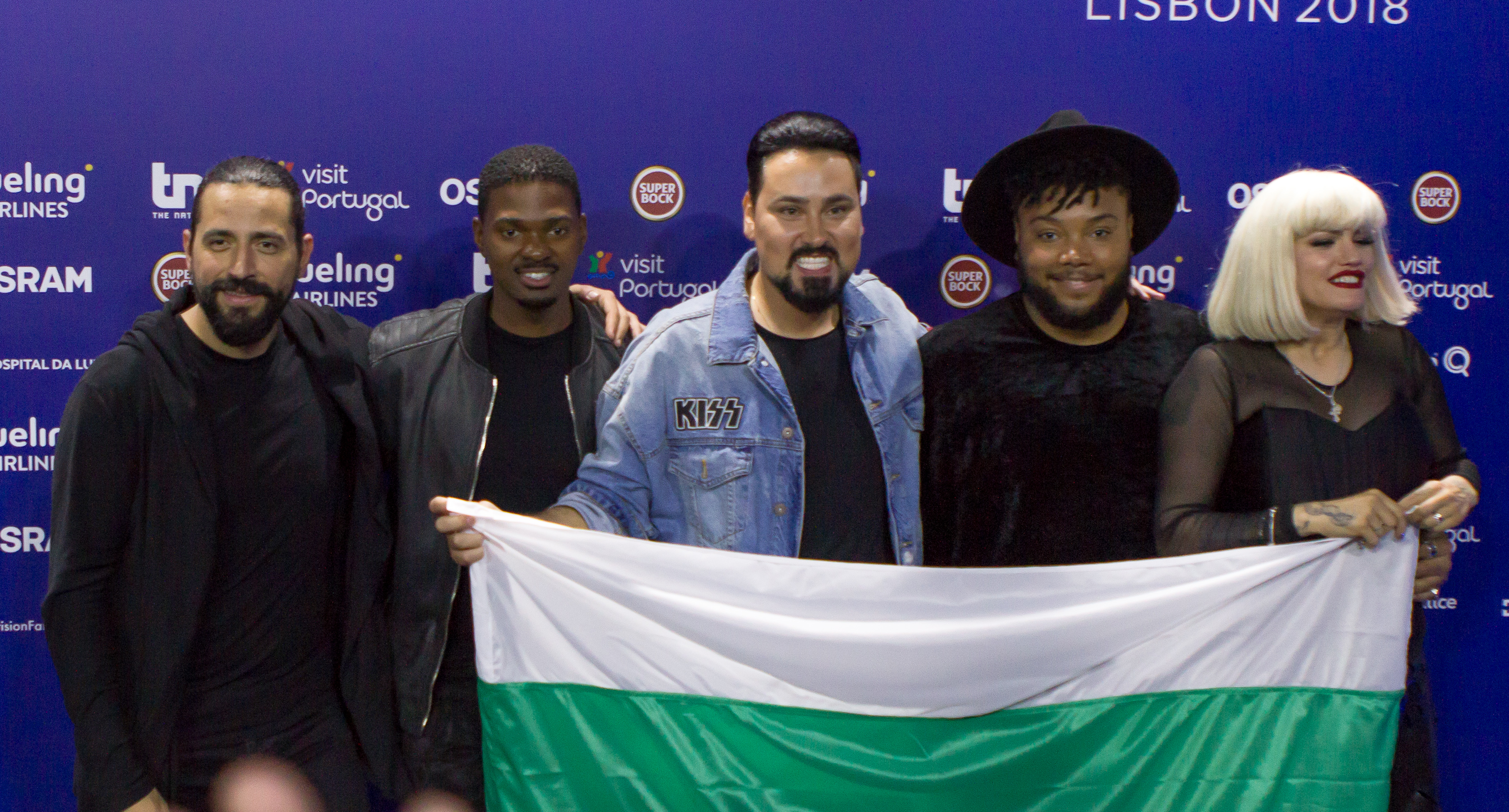 Press conference after the first Semi-Final of the 2018 Eurovision Song Contest